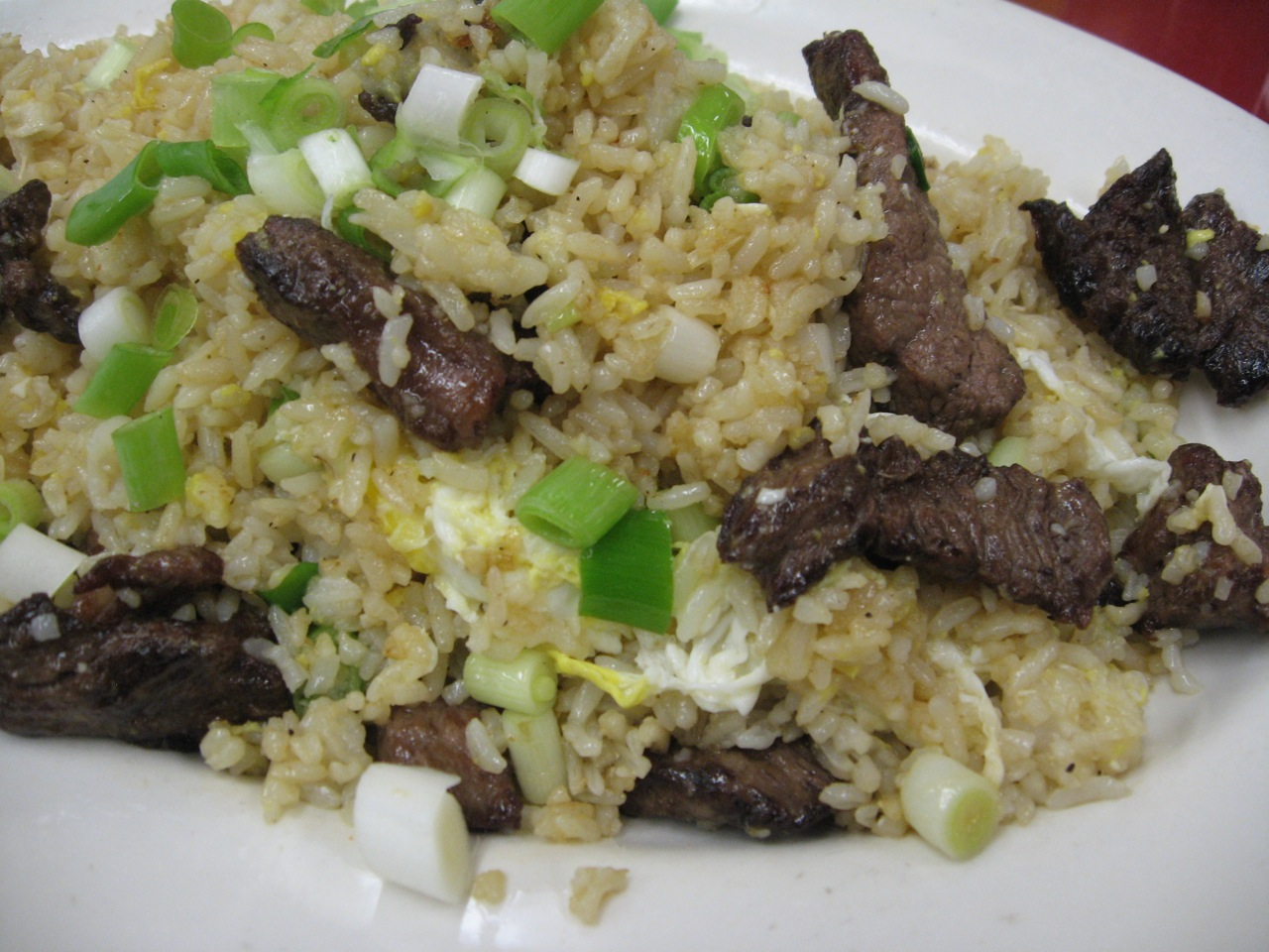 Peruvian fried rice with beef, green onions, scrambled eggs....and MSG! Yum!